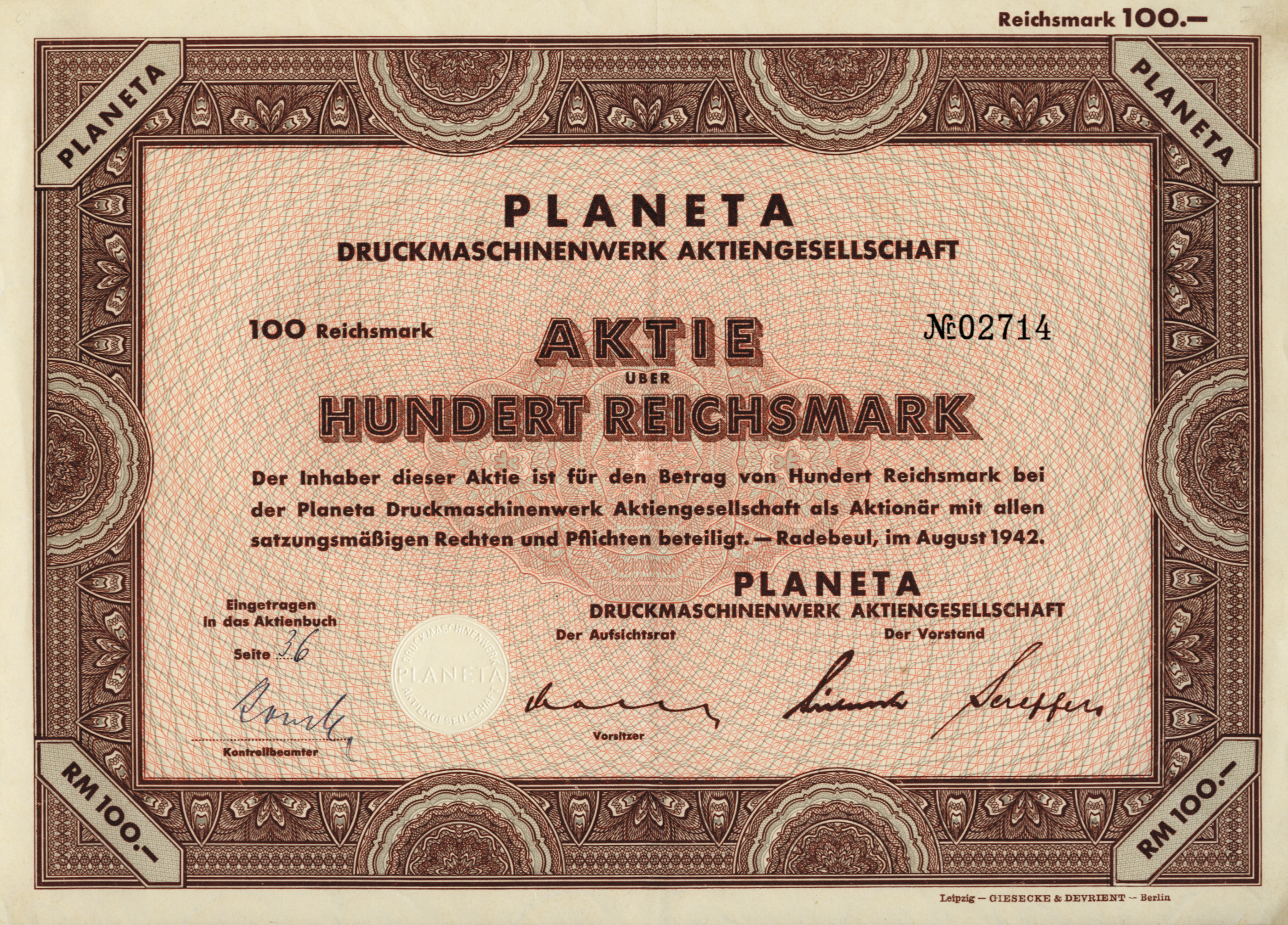 Share certificate of the former Planeta Druckmaschinenwerk AG, 1942